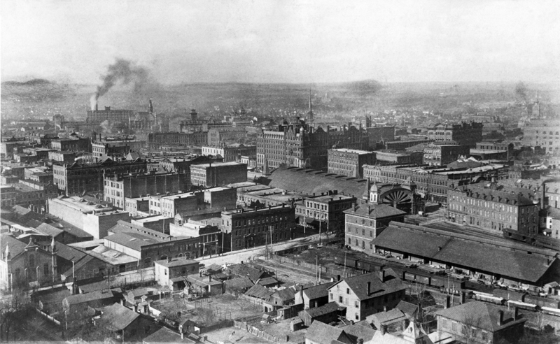 Downtown Atlanta, Georgia, as seen from the State Capitol in 1889.